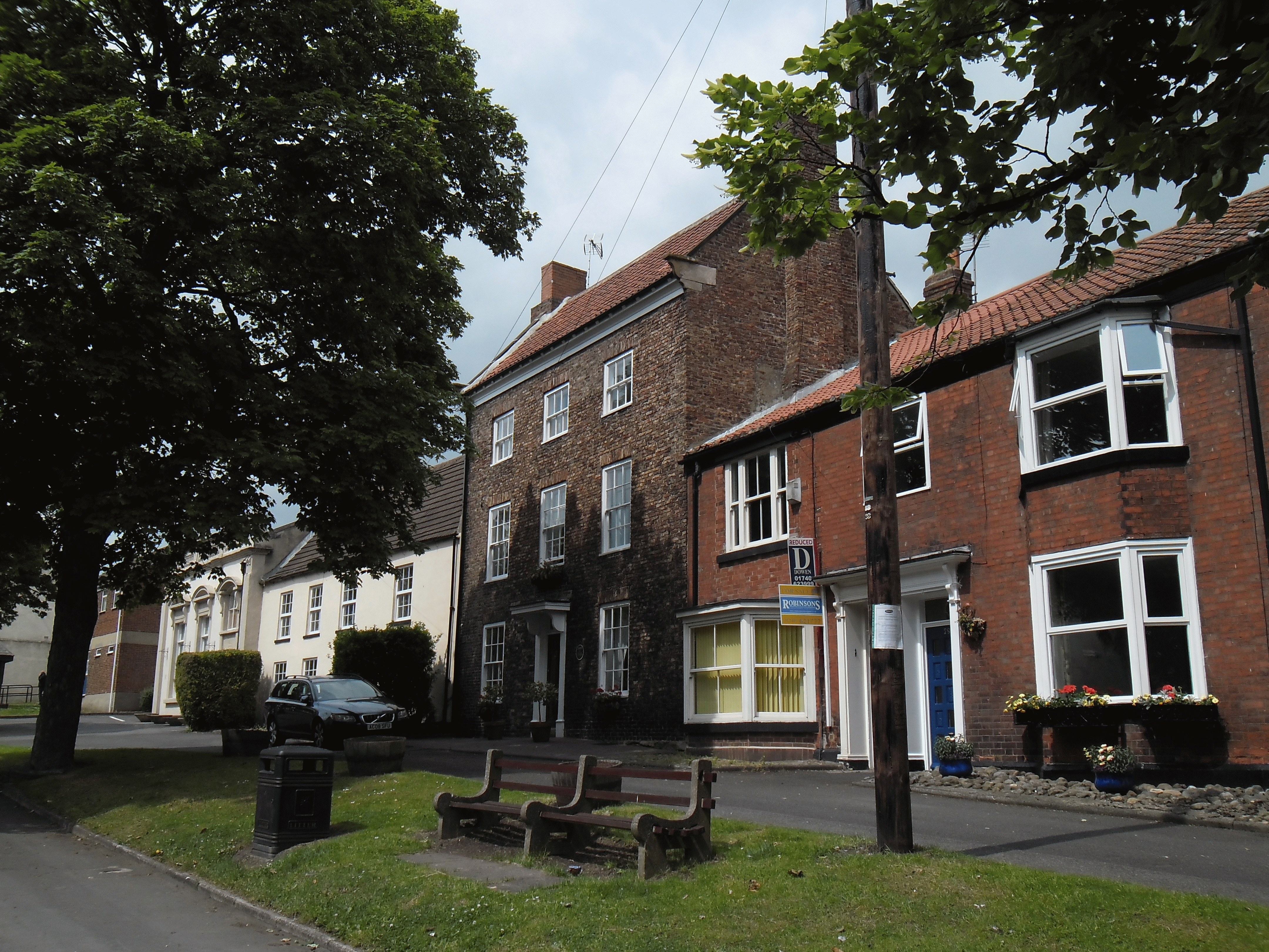 Georgian buildings in Sedgefield.